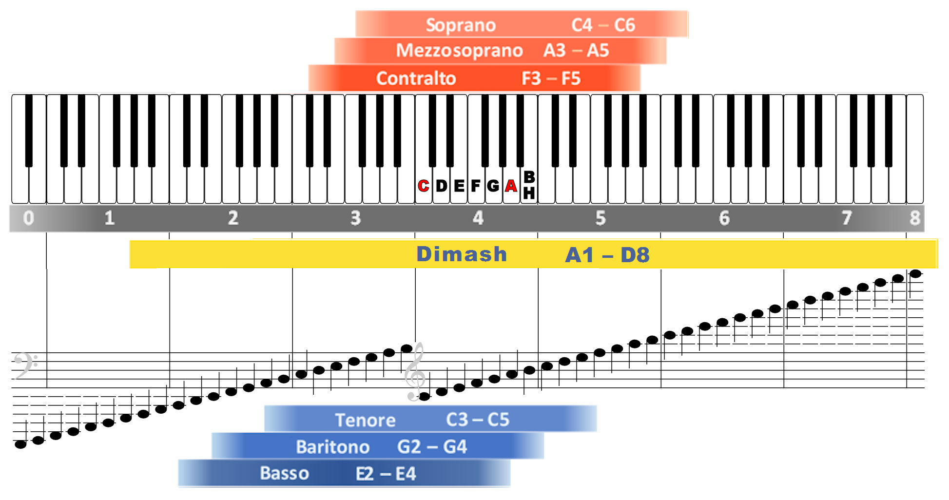 Dimash's vocal range with 88-key piano and voice types